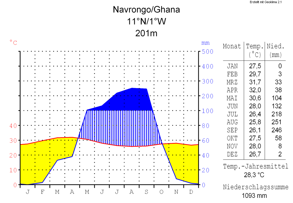 climate chart in the format by Walter and Lieth, metric, °Celsisus and millimeters, made with Geoklima 2.1